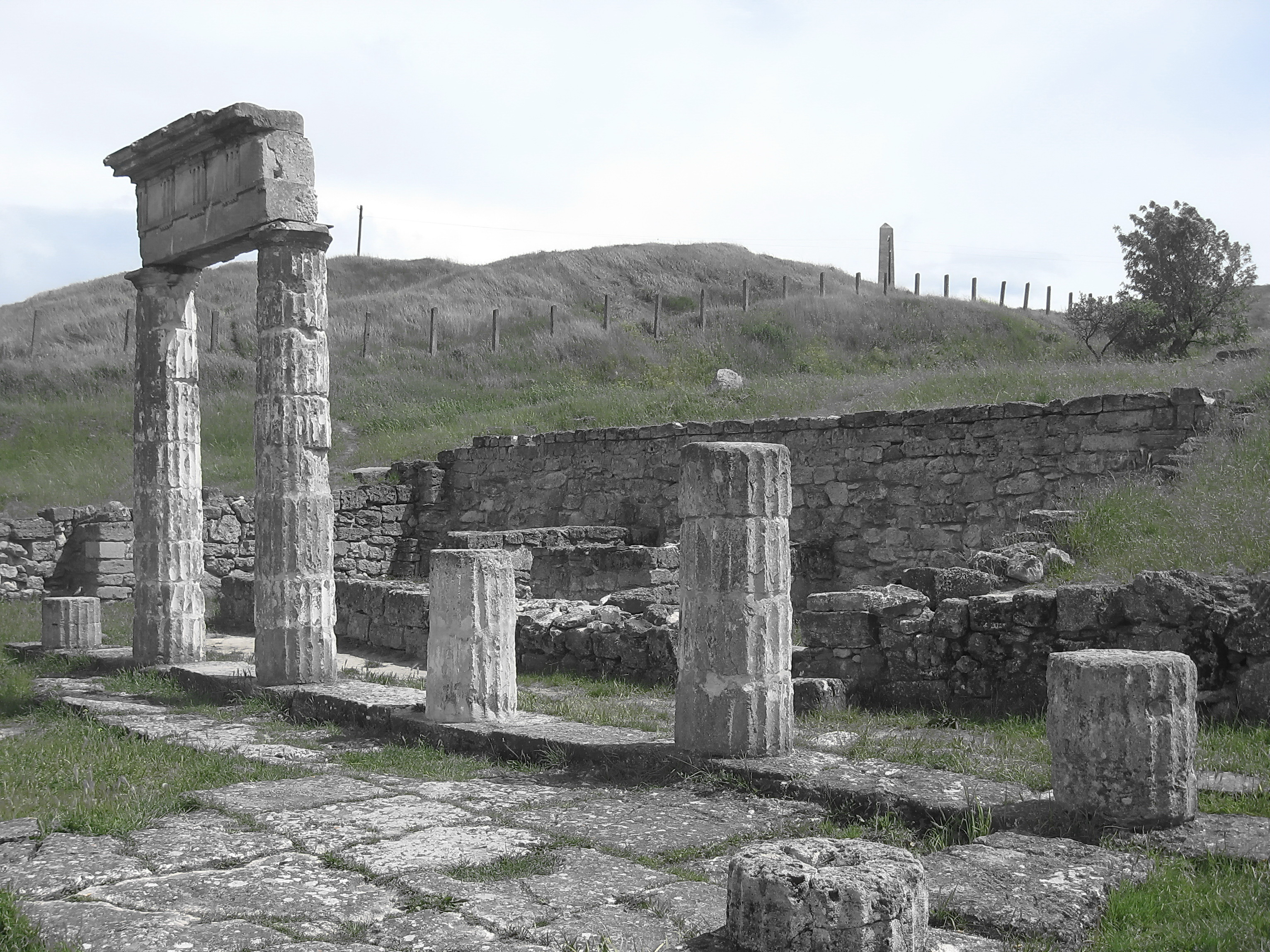 Capital of the Bosporus kingdom Pantikapaion